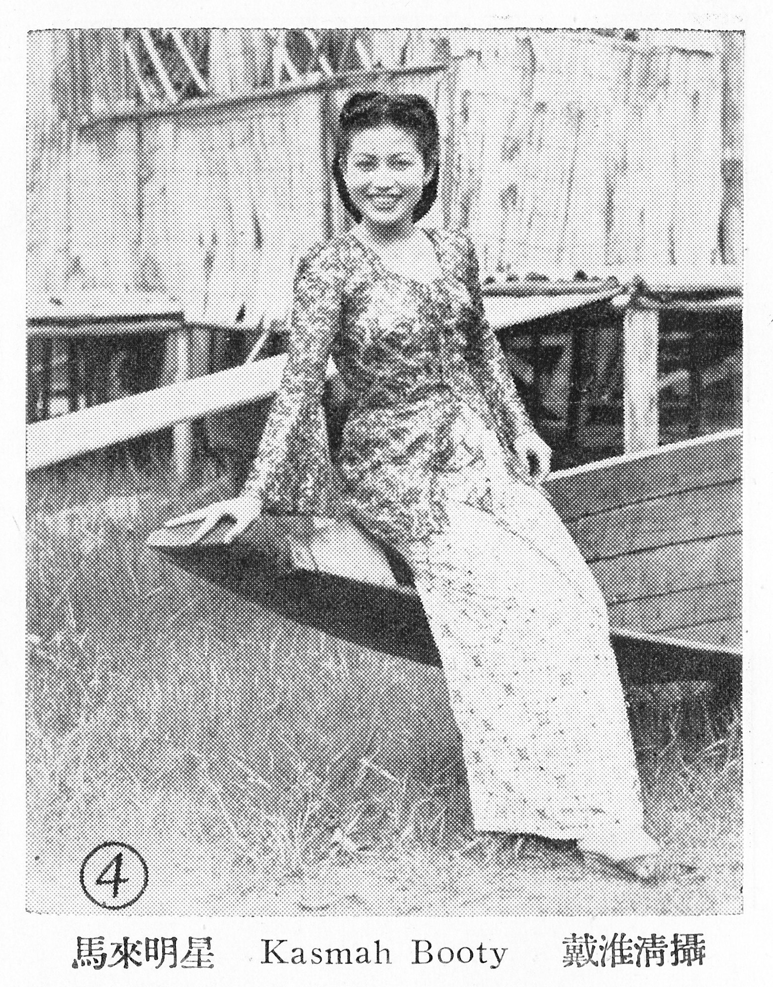 Malay movie star Kasmah Booty in 1952